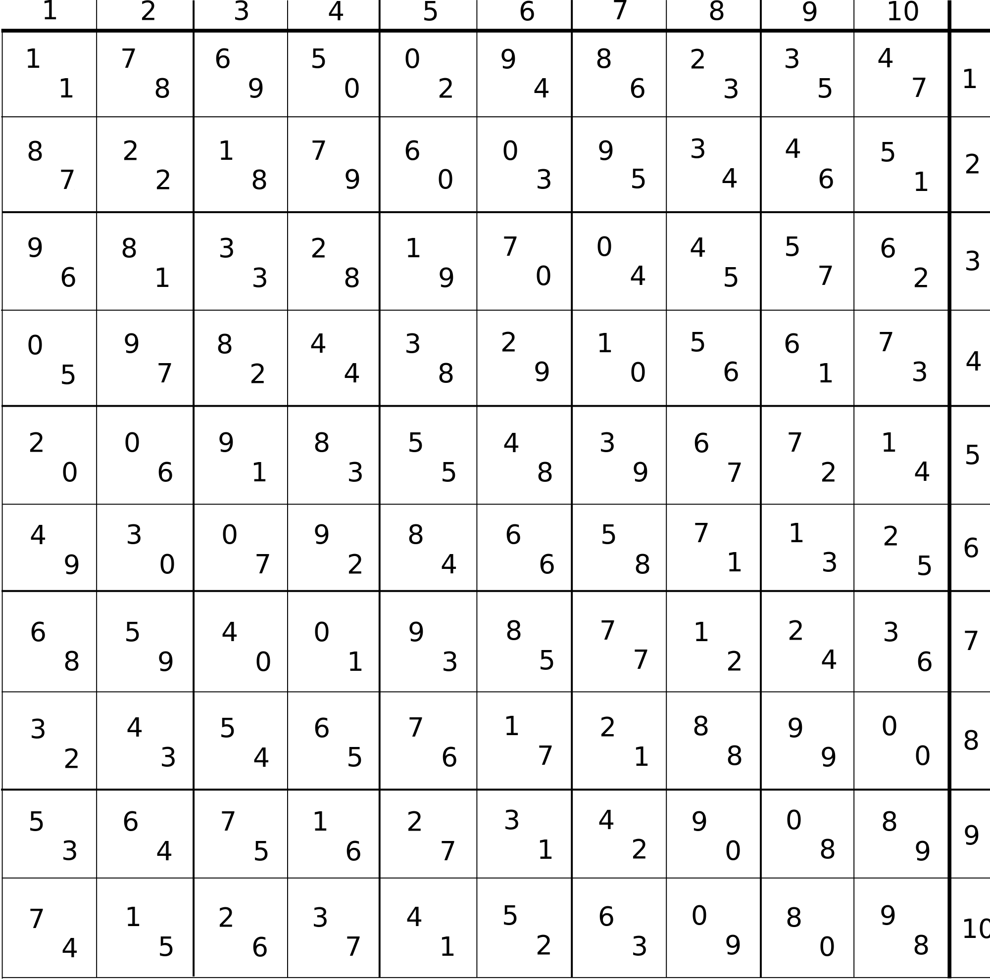 Graeco-Latin square used in "Life: A User's Manual", of Georges Perec